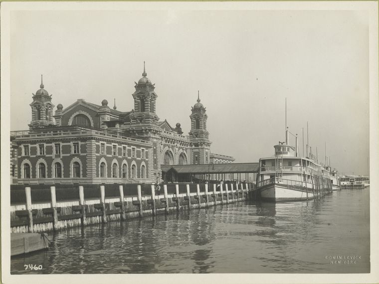 Digital ID: 416752. Immigrant Station, Ellis Island, with ferry docked at adjacent pier.. Levick, Edwin -- Photographer. 1902-1913 Notes: No. 7460. Source: Photographs of Ellis Island, 1902-1913. ( Repository: The New York Public Library. Photography Collection, Miriam and Ira D. Wallach Division of Art, Prints and Photographs. See more information about and others at Persistent URL: Rights Info: No known copyright restrictions; may be subject to third party rights (for more information